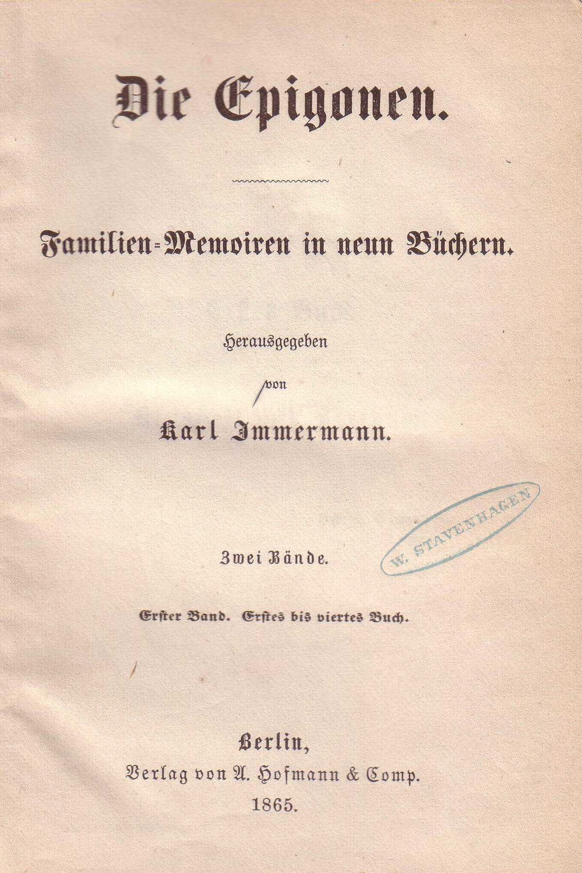 first inside page of book: Die Epigonen